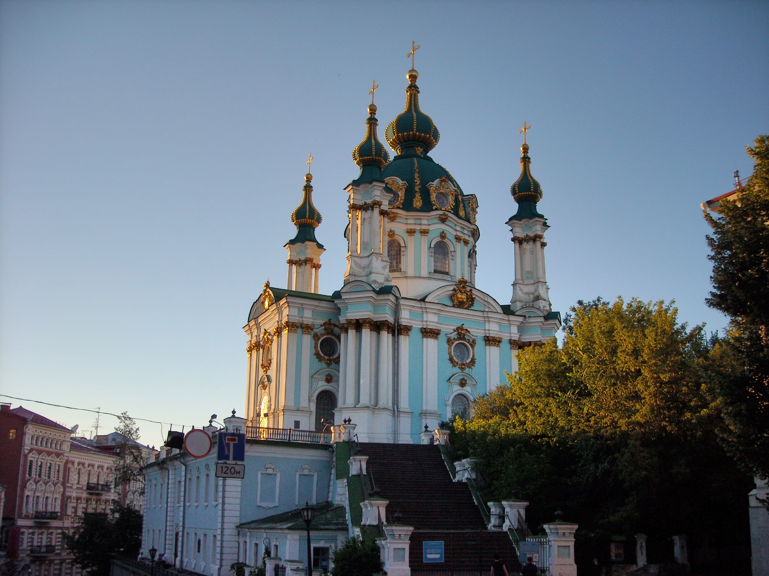 Saint Andrew's Church of Kiev